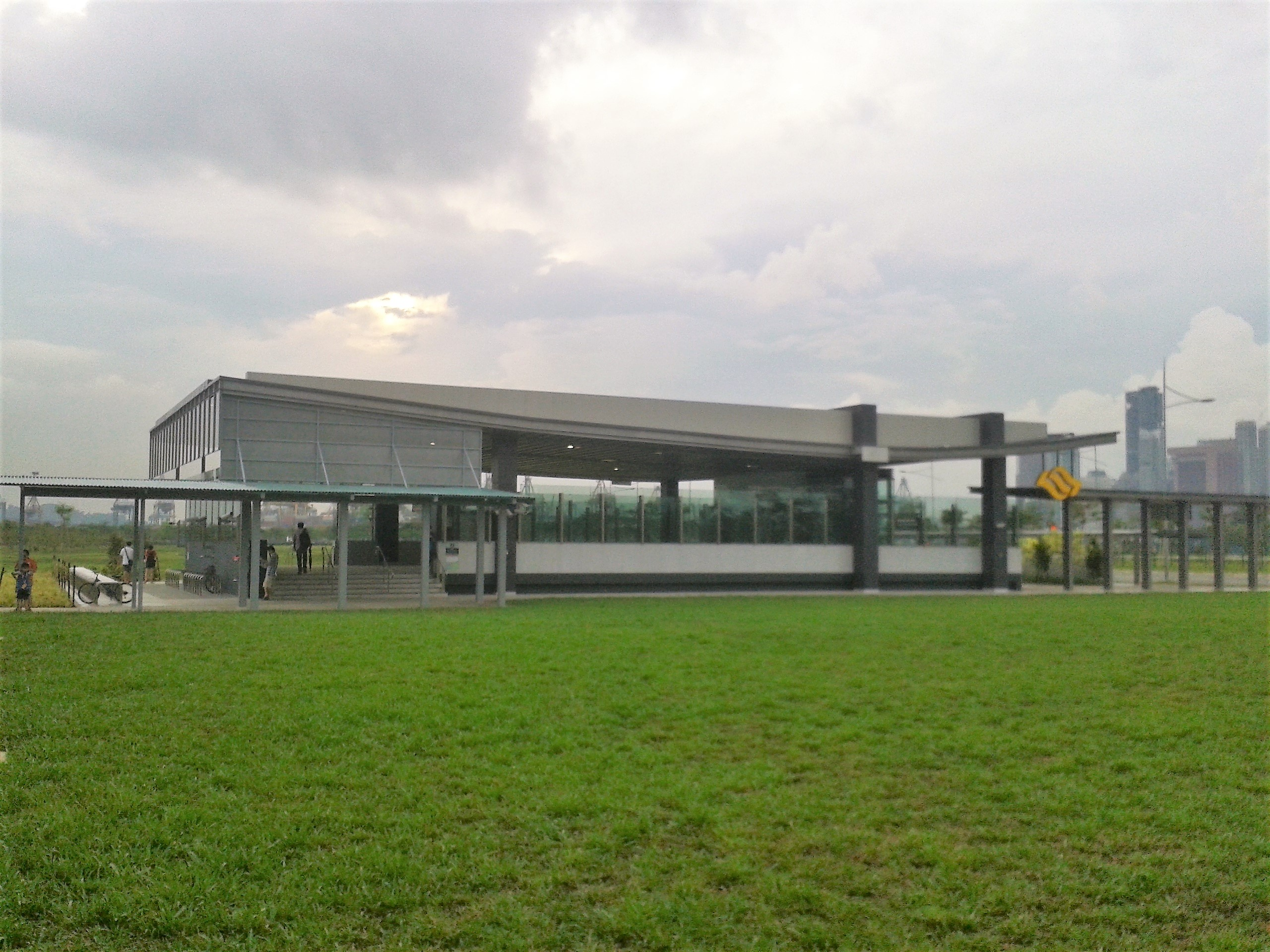 Date: 23 November 2014